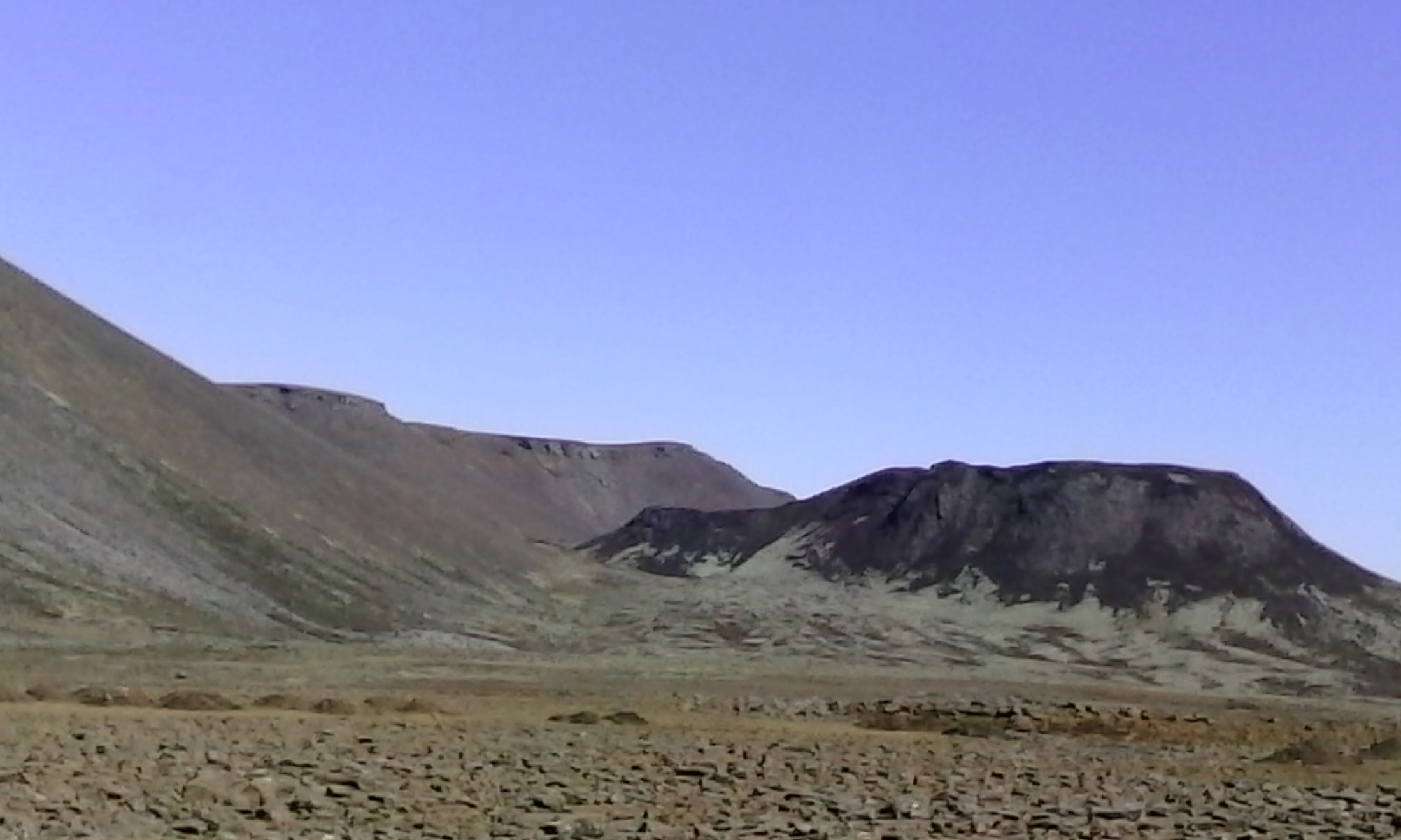 Near Krýsuvík, Iceland